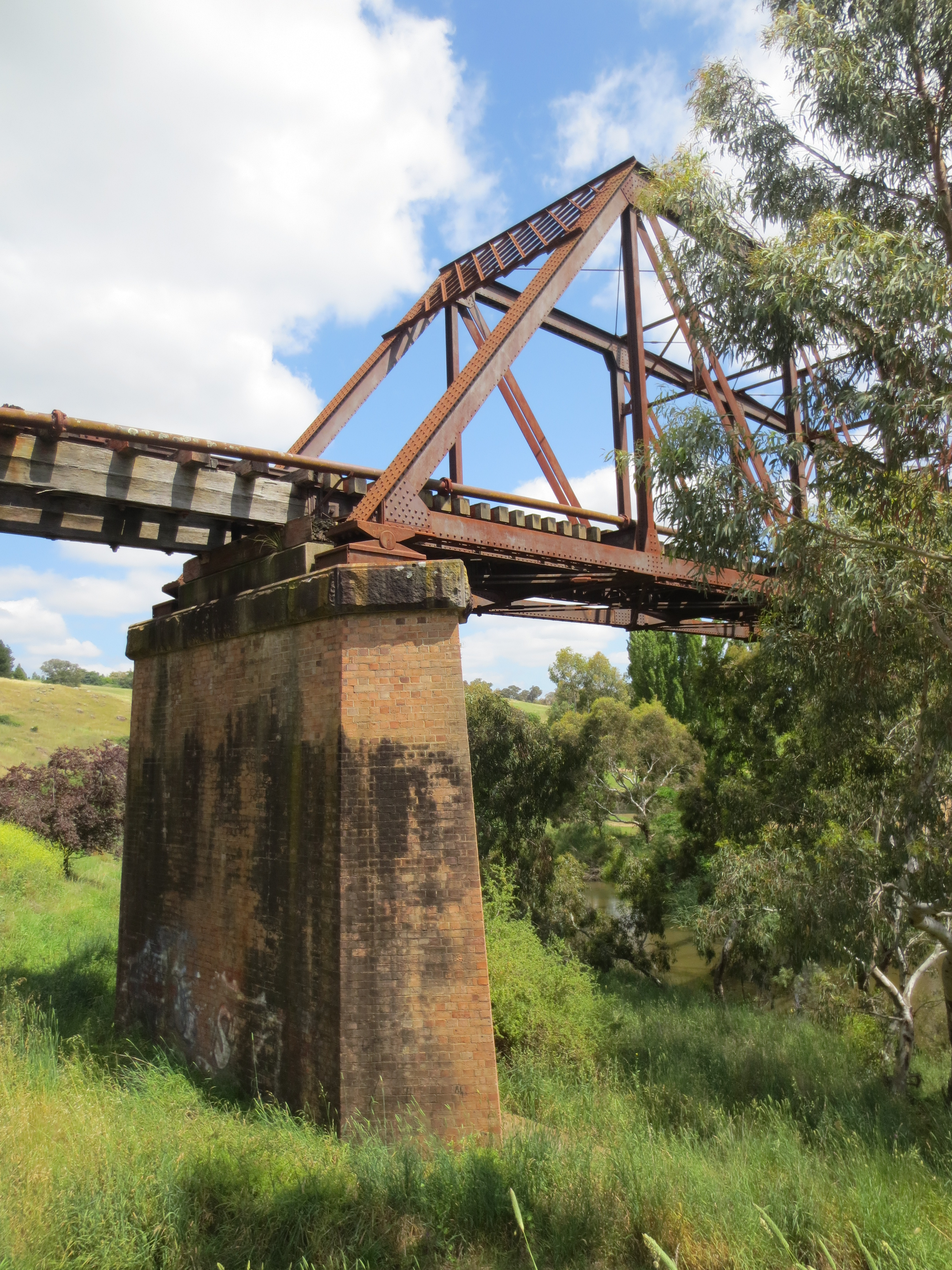 disused railway bridge abutment steel bridge bricks